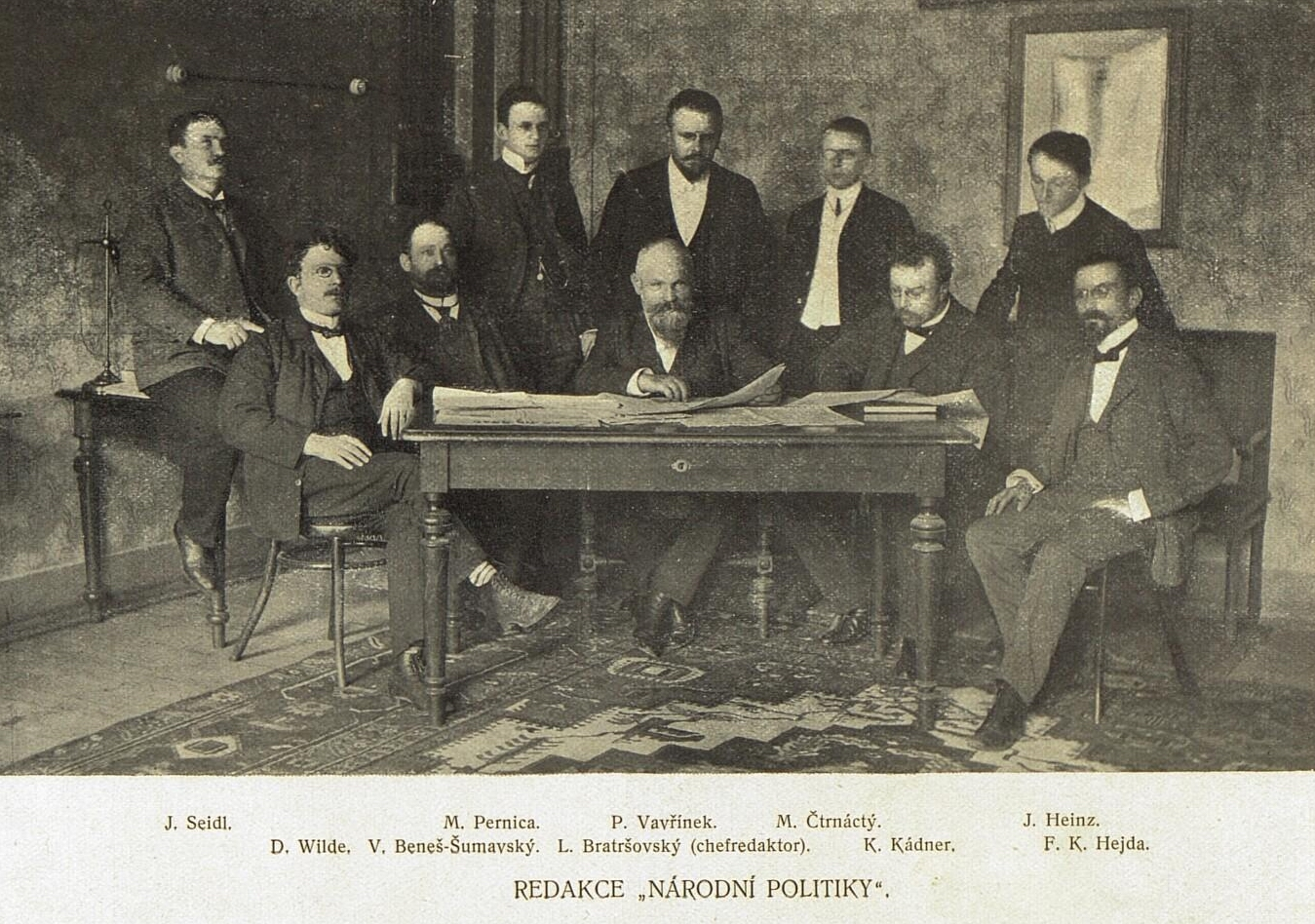 Editorial Board of Národní politika, Prague, 1907